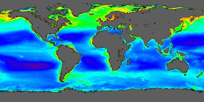 Worldwide view of plankton from NASA's Sea-viewing Wide Field-of-view Sensor. Averaged data over seven years from 1998 to 2004. Original caption - "This image shows average Northern Hemisphere Spring ocean chlorophyll concentrations (light green) produced from all data acquired 1998 - 2004 represent the distribution and abundance of the microscopic plants called phytoplankton that not only form the base of the marine food web, but are responsible for approximately half of the Earth's primary production."